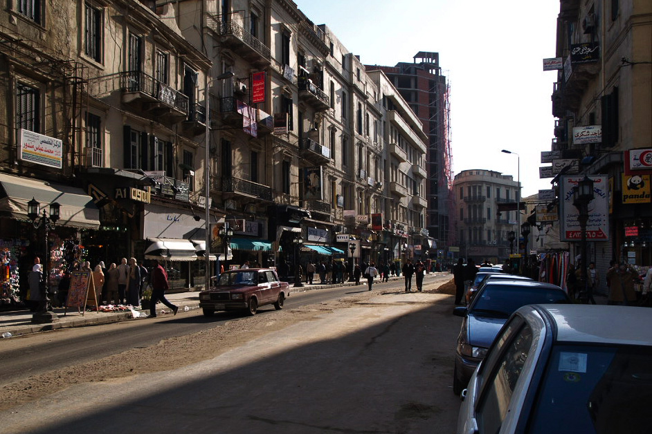 Alexandria/Egypt, Saad Zaghloul street scene own photo, feb 12, 2005 photo: nomo/michael hoefner